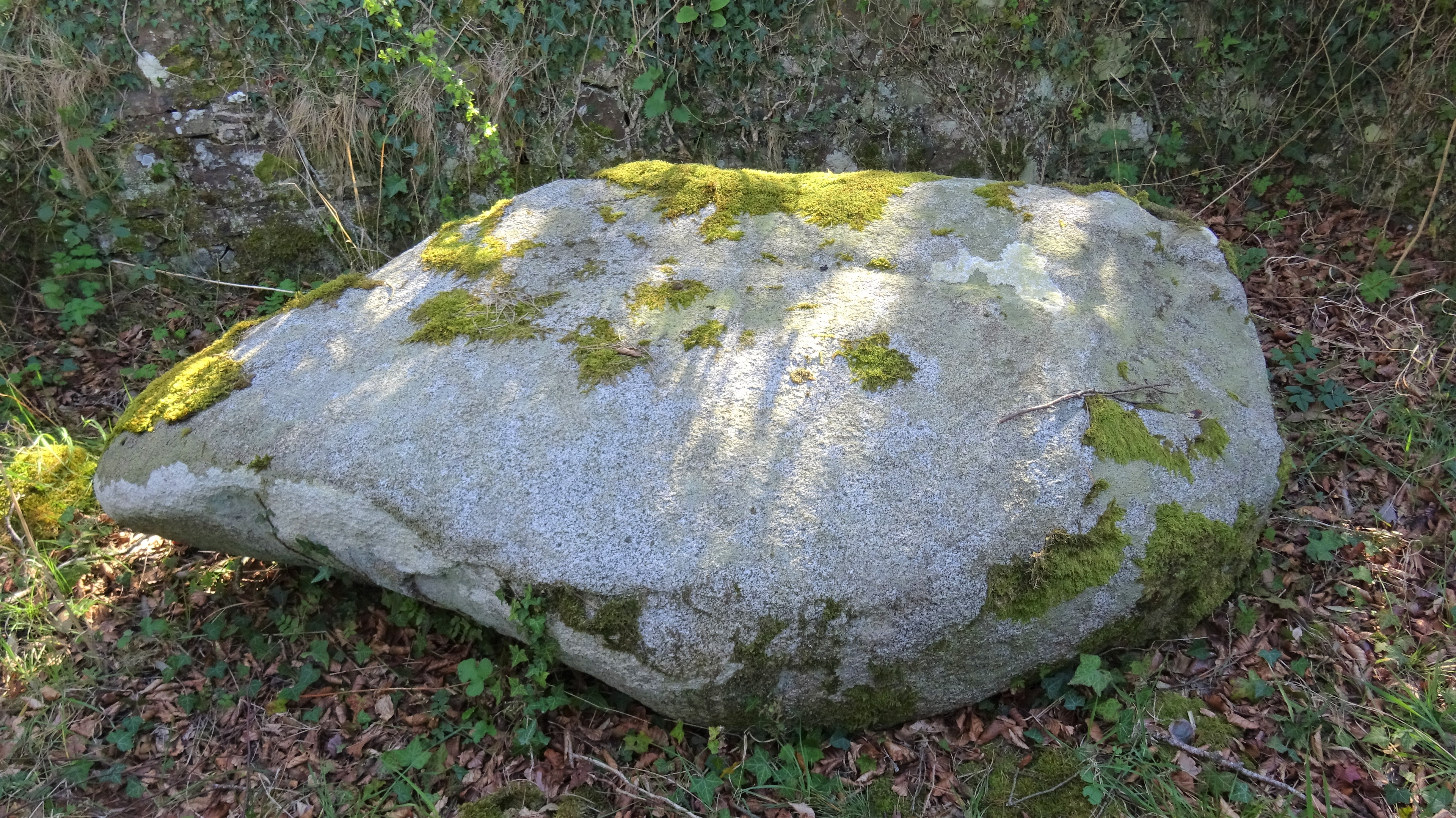 The Wallace's Stone, Blairstone Mains, Minishant, South Ayrshire. Carved cross said to be his sword. Probably a glacial erratic used as a standing stone and later a marker for the pilgrim's way to Whithorn.